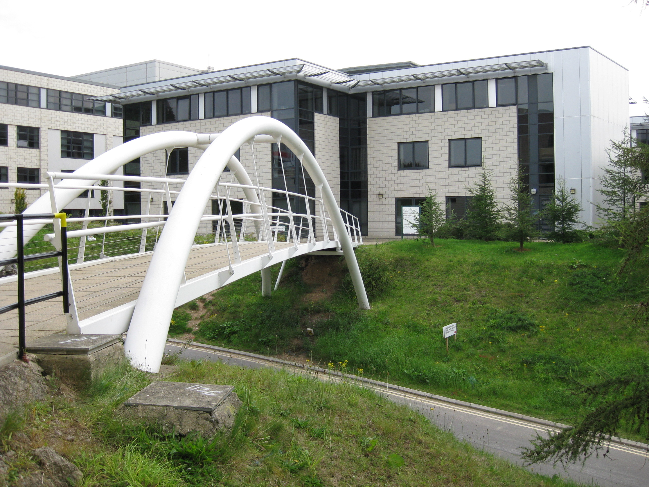 Seebohm Rowntree Building, Alcuin College, University of York. Opened 2002.